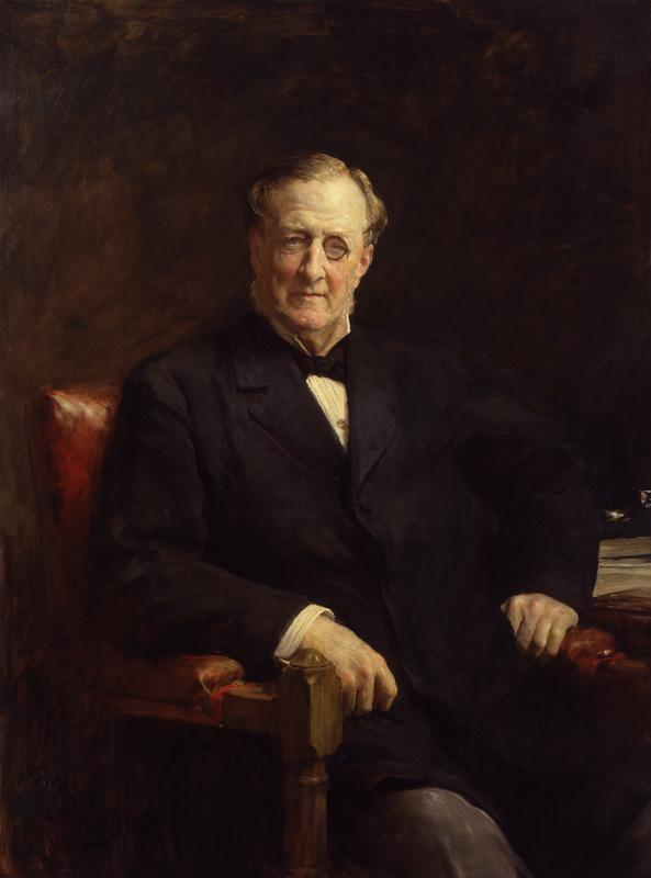 Portrait of Henry Chaplin, 1st Viscount Chaplin. Courtesy of the collections of the National Portrait Gallery, London, and BBC Paintings.